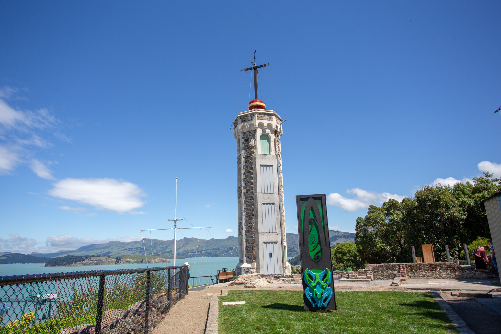 The Timeball station at Lyttelton (New Zealand). The original station was destroyed by the 2011 Canterbury earthquakes. This picture was taken in November 2018, soon after the station was rebuilt. In front of the tower, a modern pou has been erected.